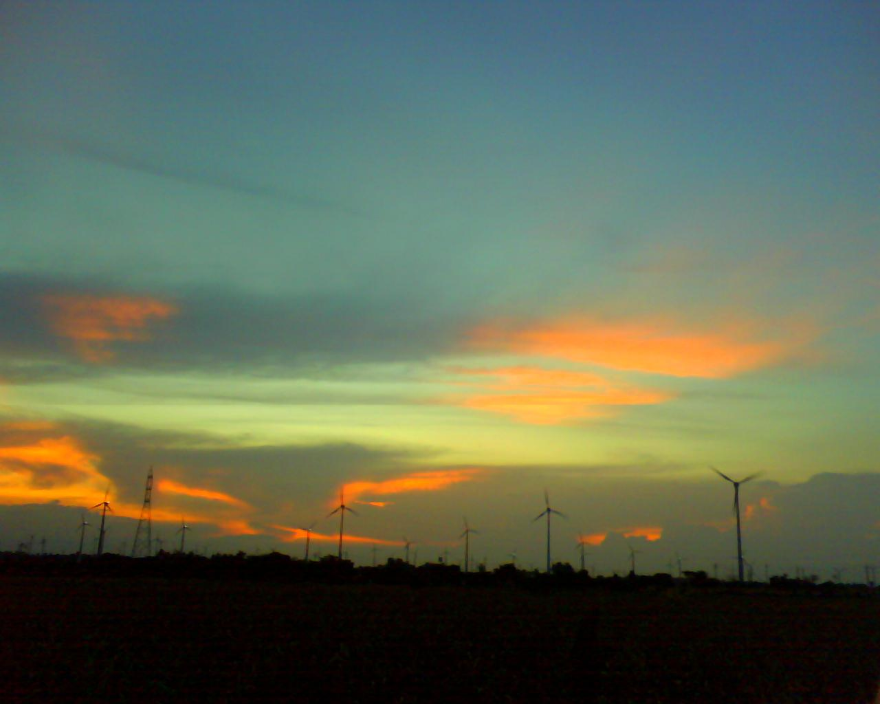 A mesmerizing evening in Ponnapuram subtly supported by cluster of windmills